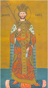 Reconstruction of the ilustration of despot Đurađ Branković in Esphigmenou charter from 1429.